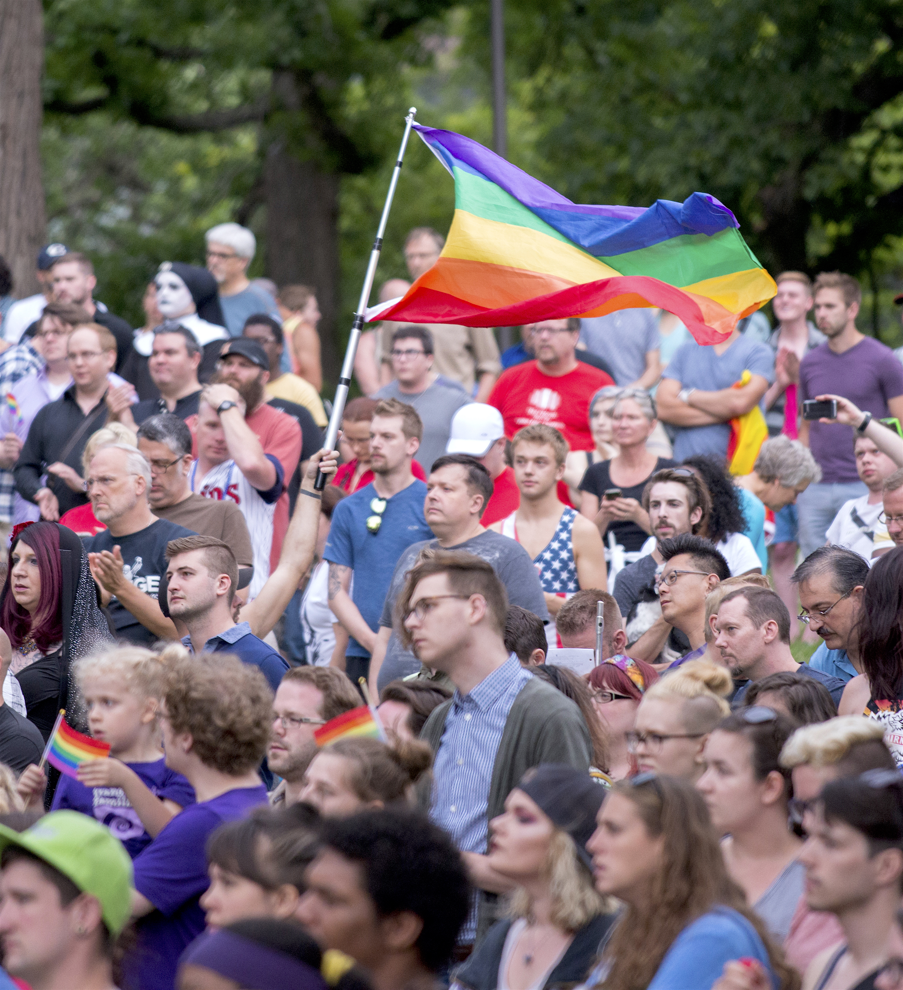 Vigil to unite in the wake of the Orlando Pulse shooting in Minneapolis, Minnesota.